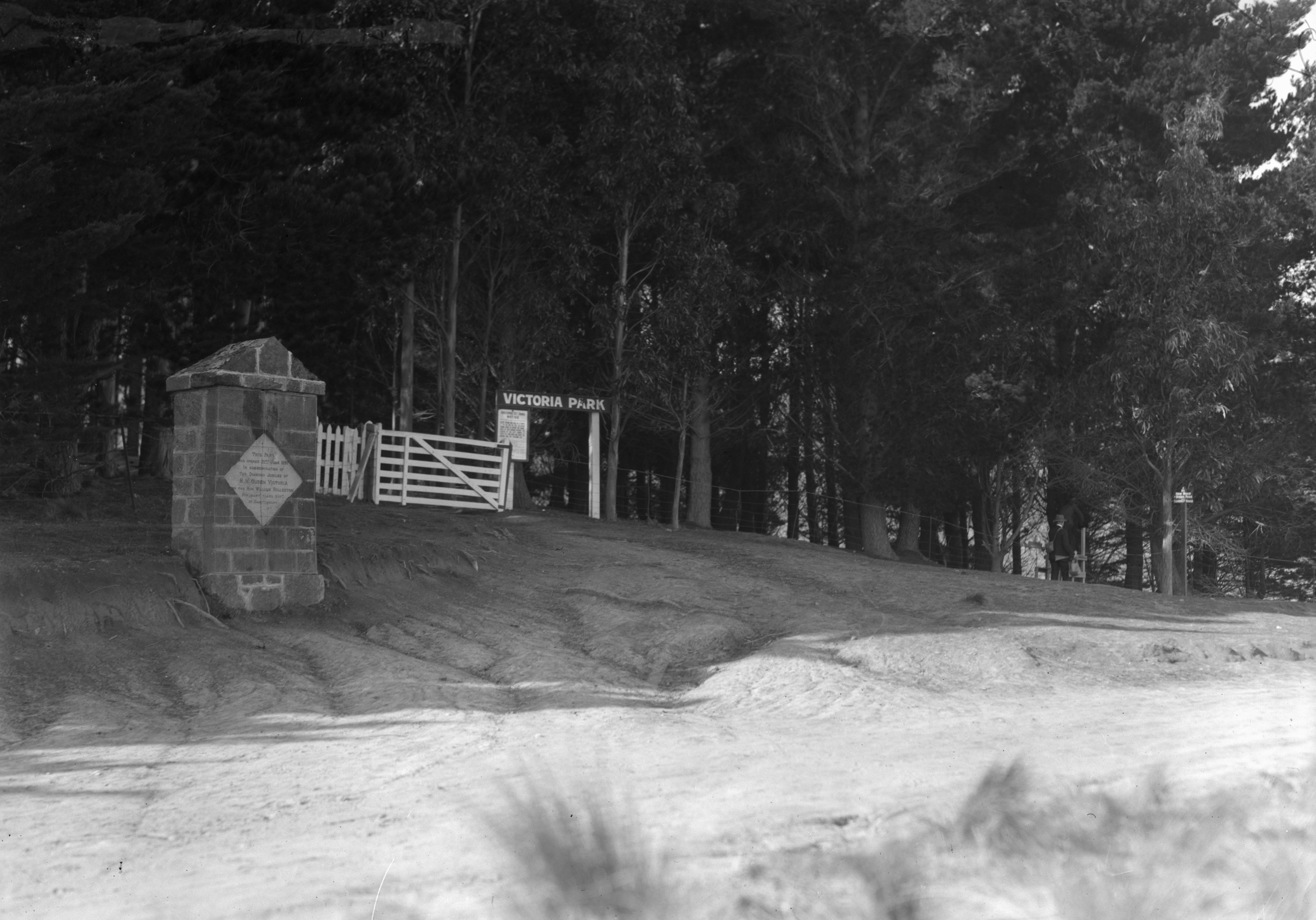 View of The gate of Victoria Park, probably in Christchurch. There is a row of tall trees inside a fence, and in the foreground there is a stone memorial with a plaque inscribed "This park was opened 22nd June 1897 in commemoration of the Diamond Jubilee of H M Queen Victoria by the Hon William Rolleston, for many years Supt of Canterbury". Photograph taken by Albert Percy Godber.